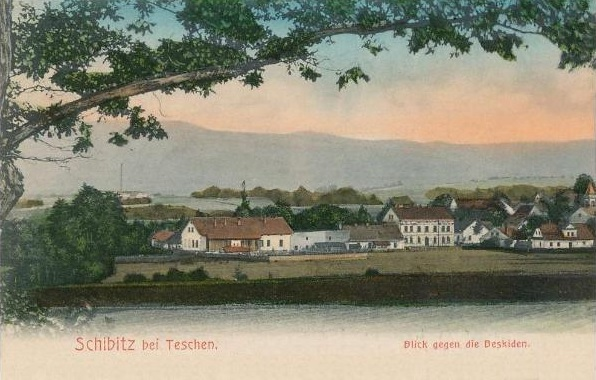 Svibice - view from north (1907)